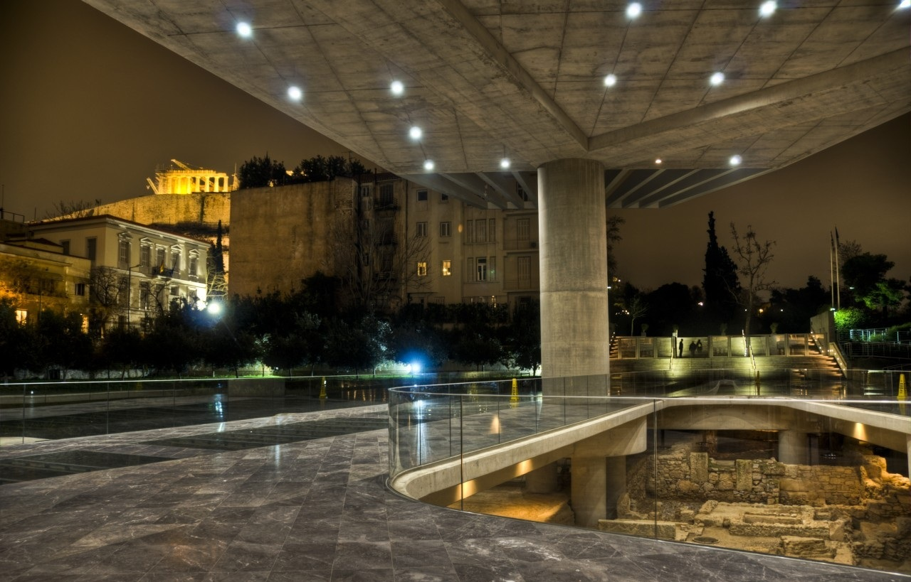 Acropolis Museum